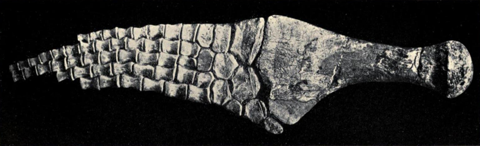 Photograph of the paddle of Polycotylus latipinnis from "North American Plesiosaurs: Part 1" by Samuel W. Williston and Oliver C. Farrington (Field Colombian Museum Publication (Geology) 73).